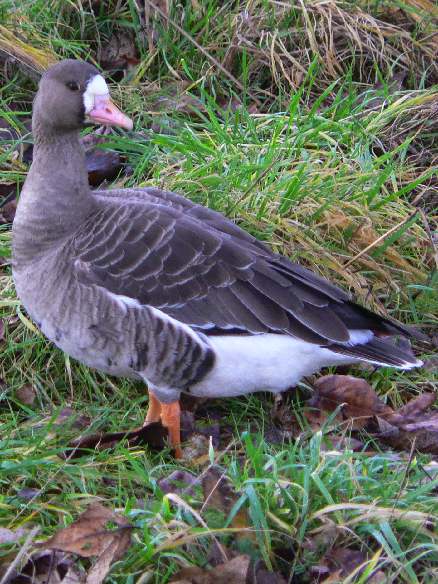 White-fronted Goose